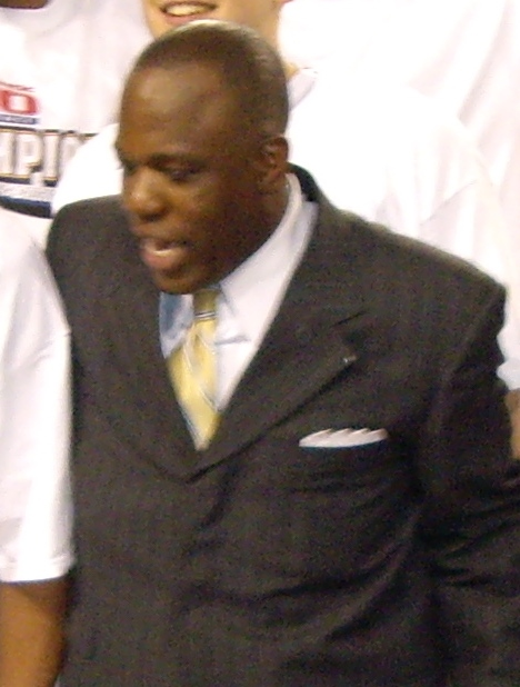 George Washington University men's basketball coach Karl Hobbs after winning the Atlantic 10 Tournament.